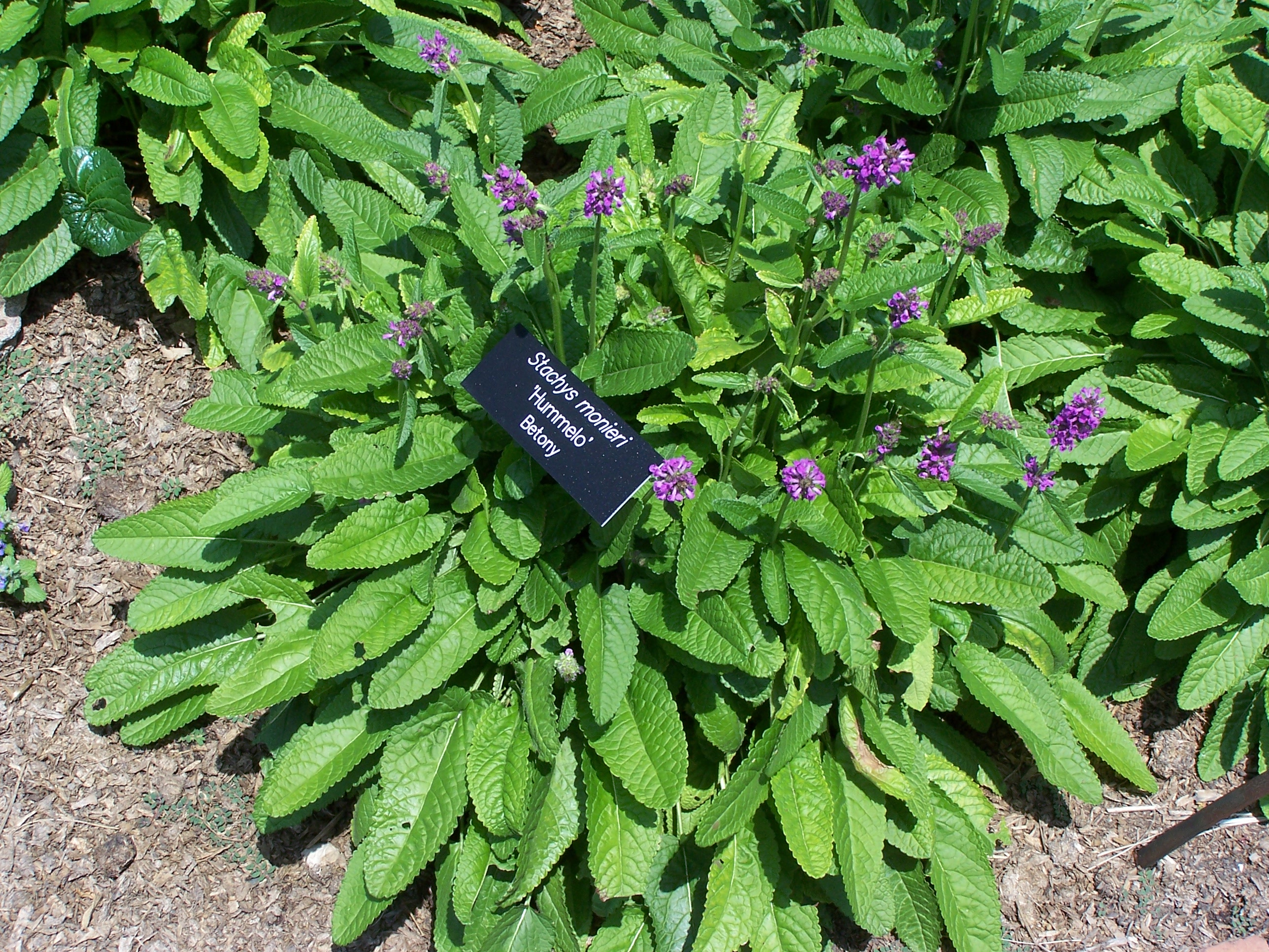 Stachys monnieri 'Hummelo' Betony at Minnesota Landscape Arboretum